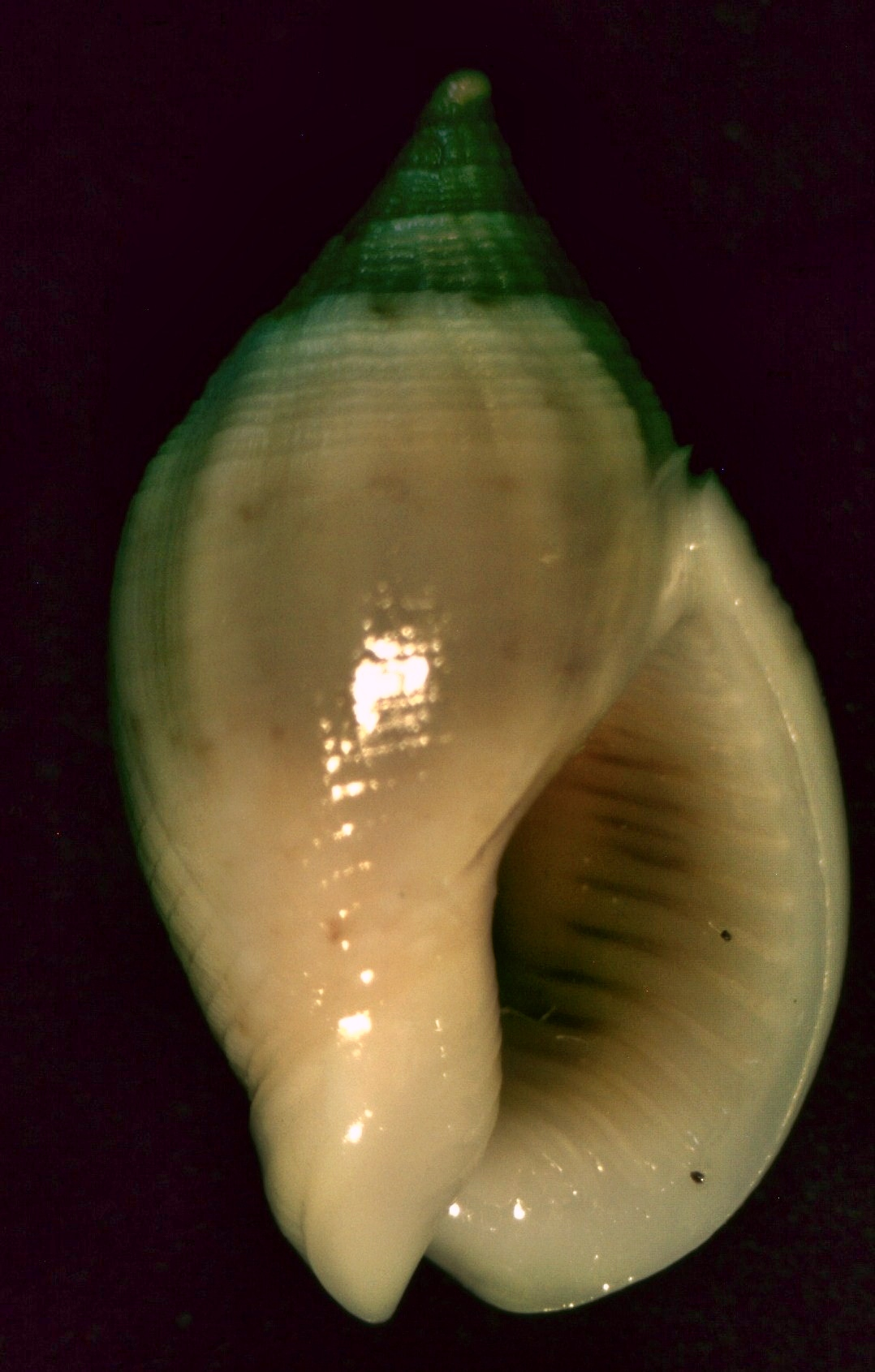 Cyllene sulcata G. B. Sowerby III, 1889, a Nassa mud snail from the family Nassariidae; Western Australia